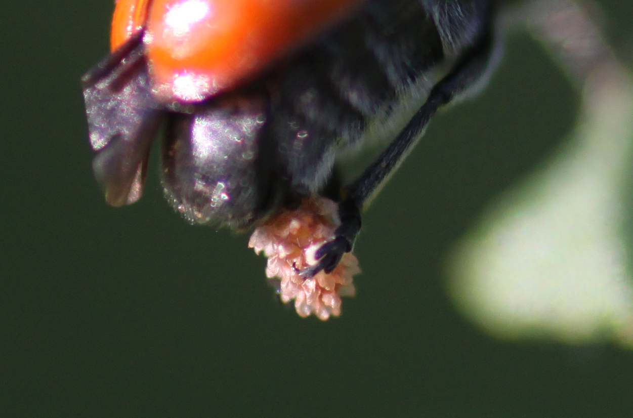 Close view of clytra leaviuscula laying eggbox